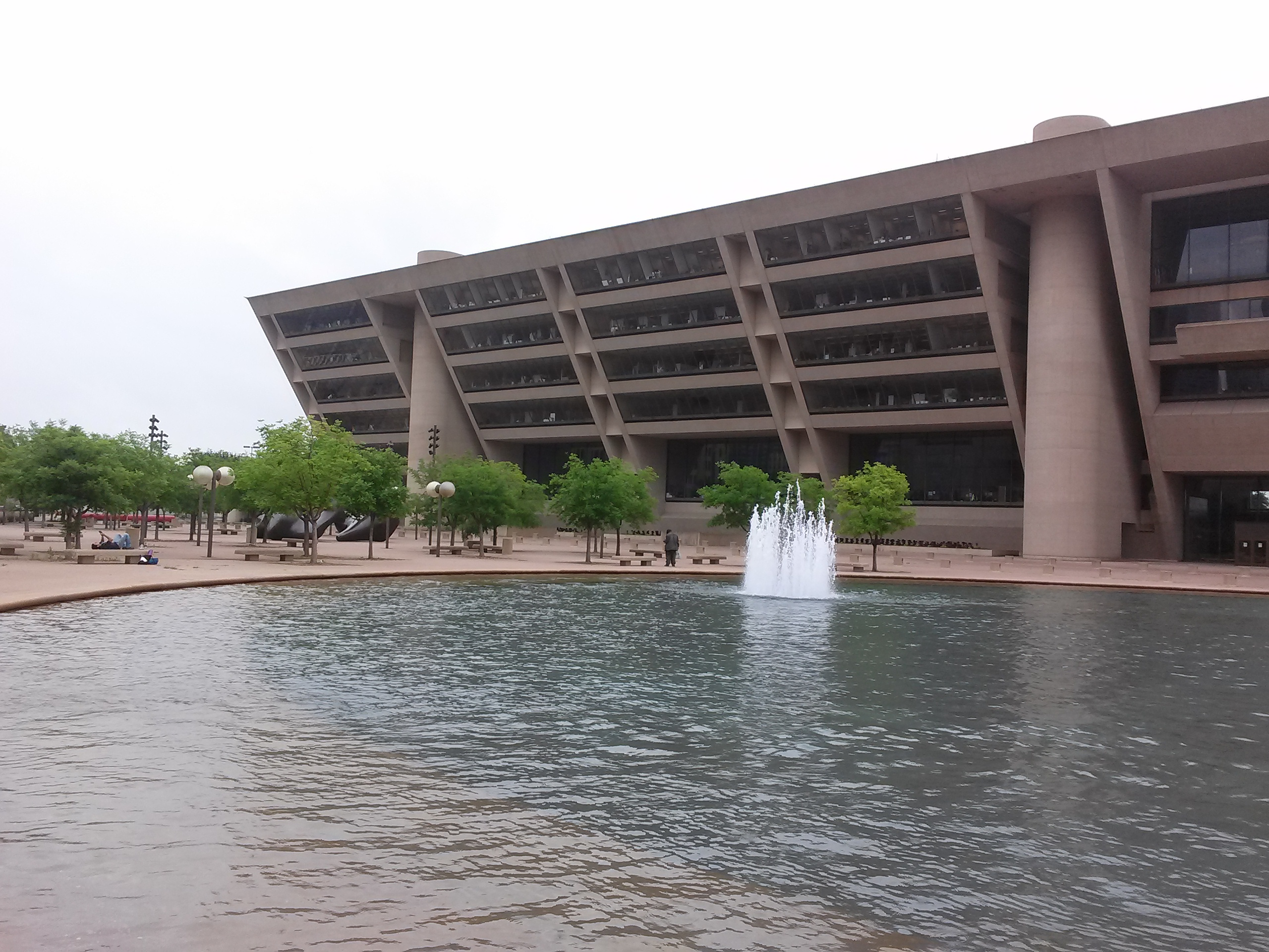 Dallas City Hall